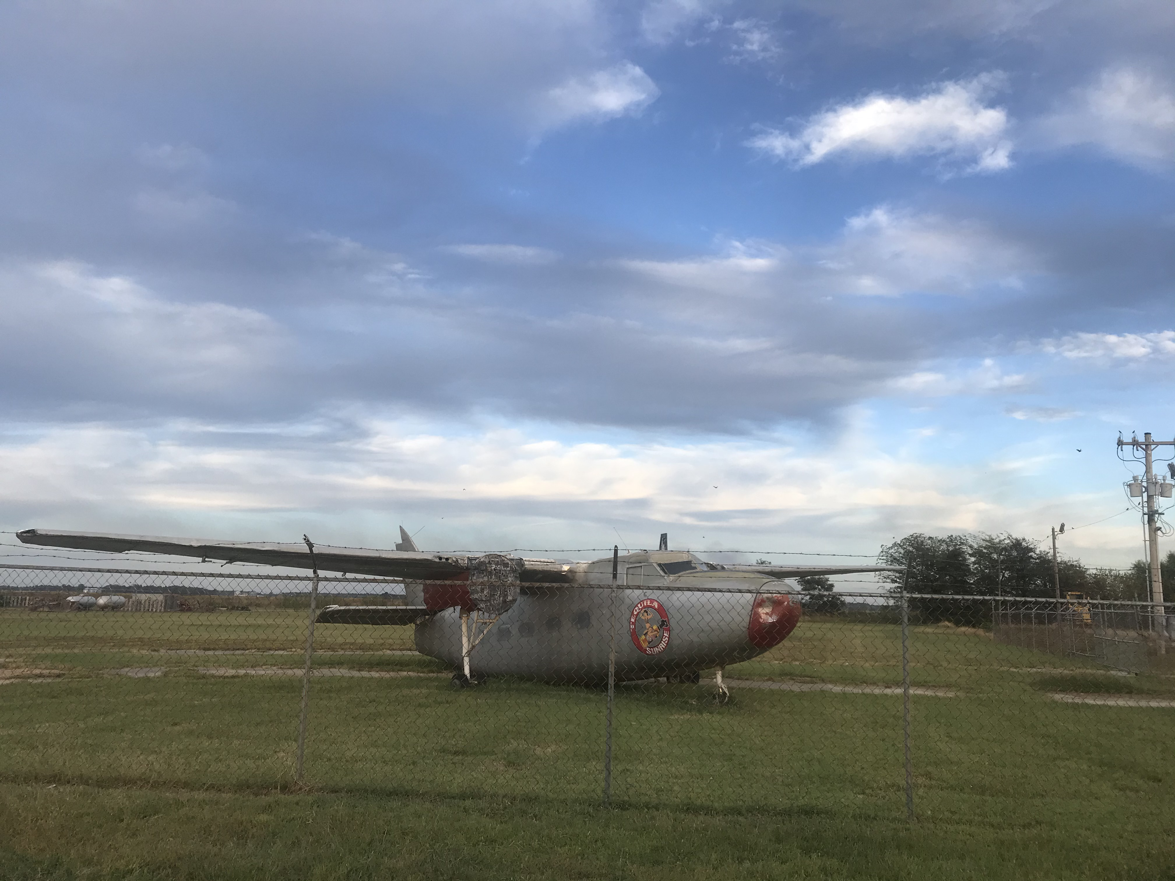 Pembroke on display at State Line Liquors in Neelyville Missouri